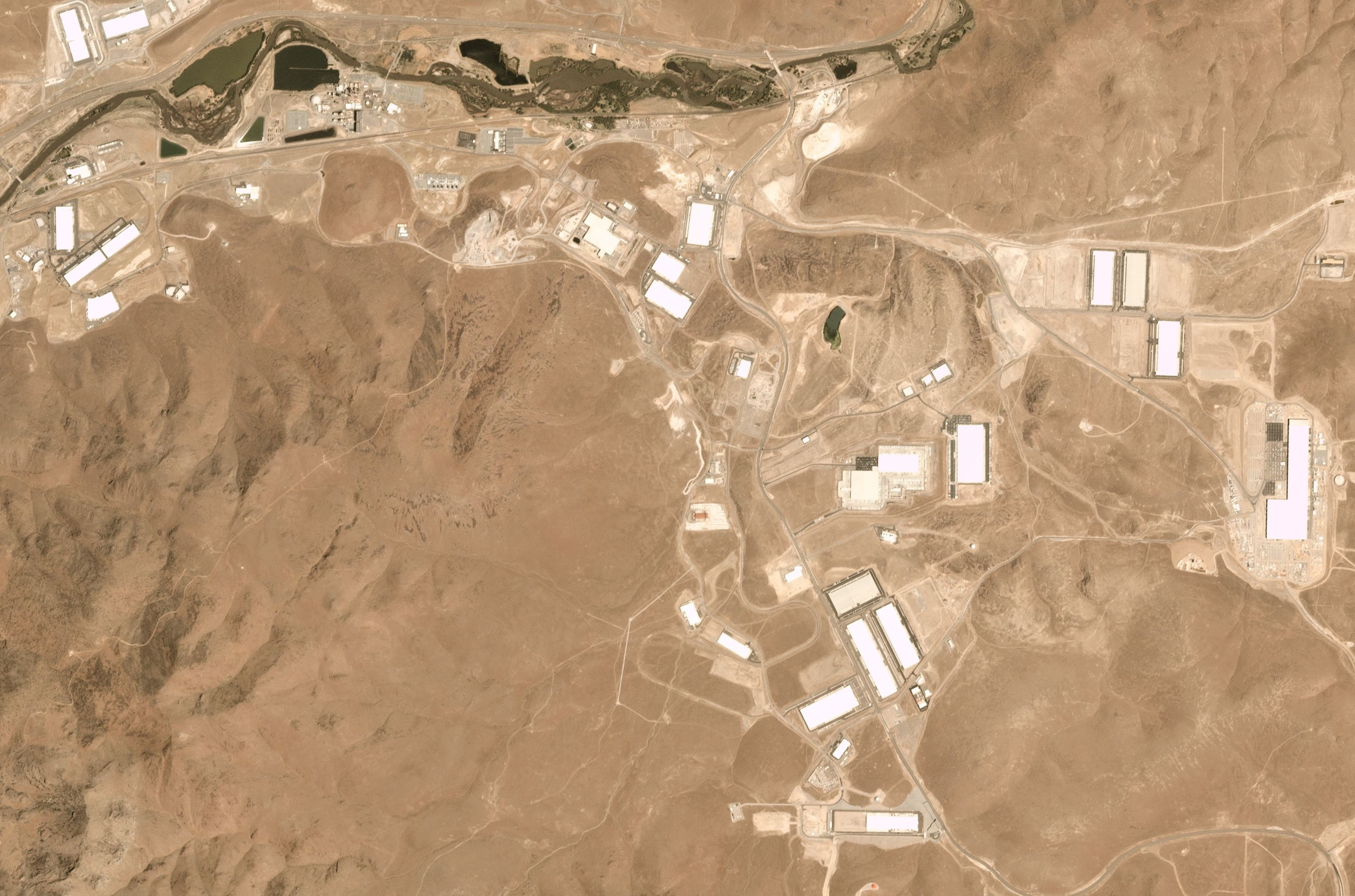 south of I-80, Truckee River